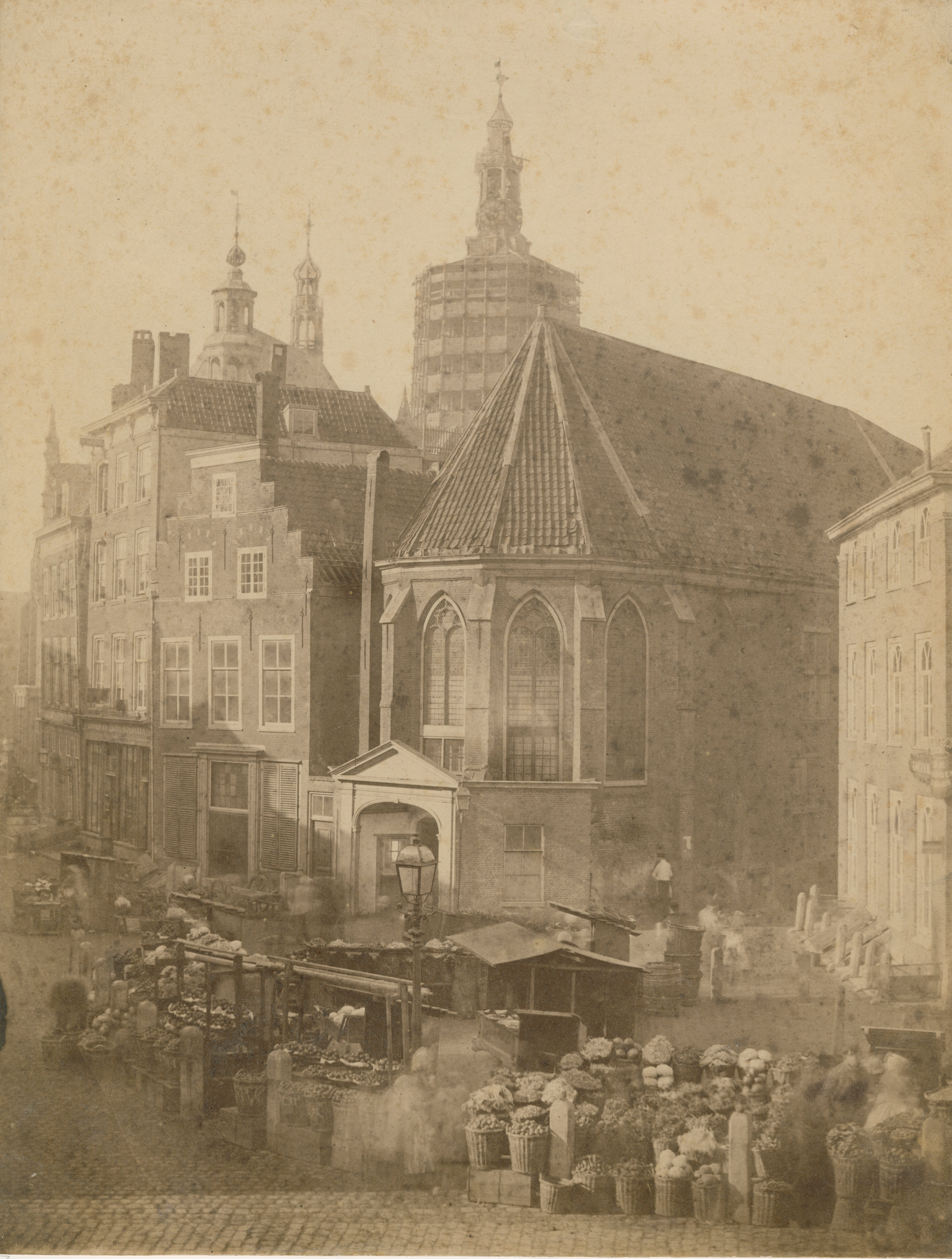 Market place in The Hague / Den Haag Holland around 1860 bij Maria Hille